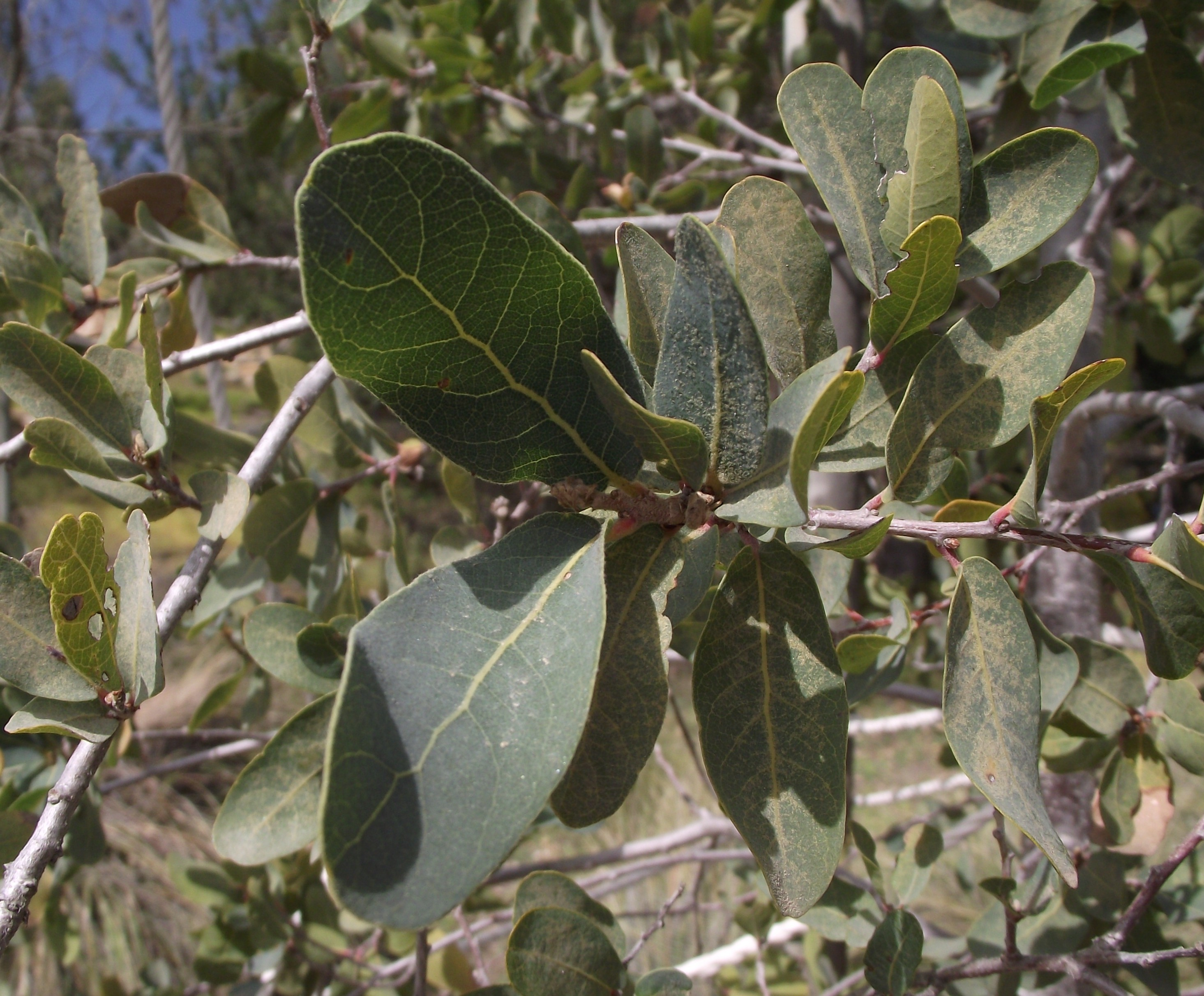 Quercus engelmannii at the San Diego Wild Animal Park, California, USA. Identified by sign.